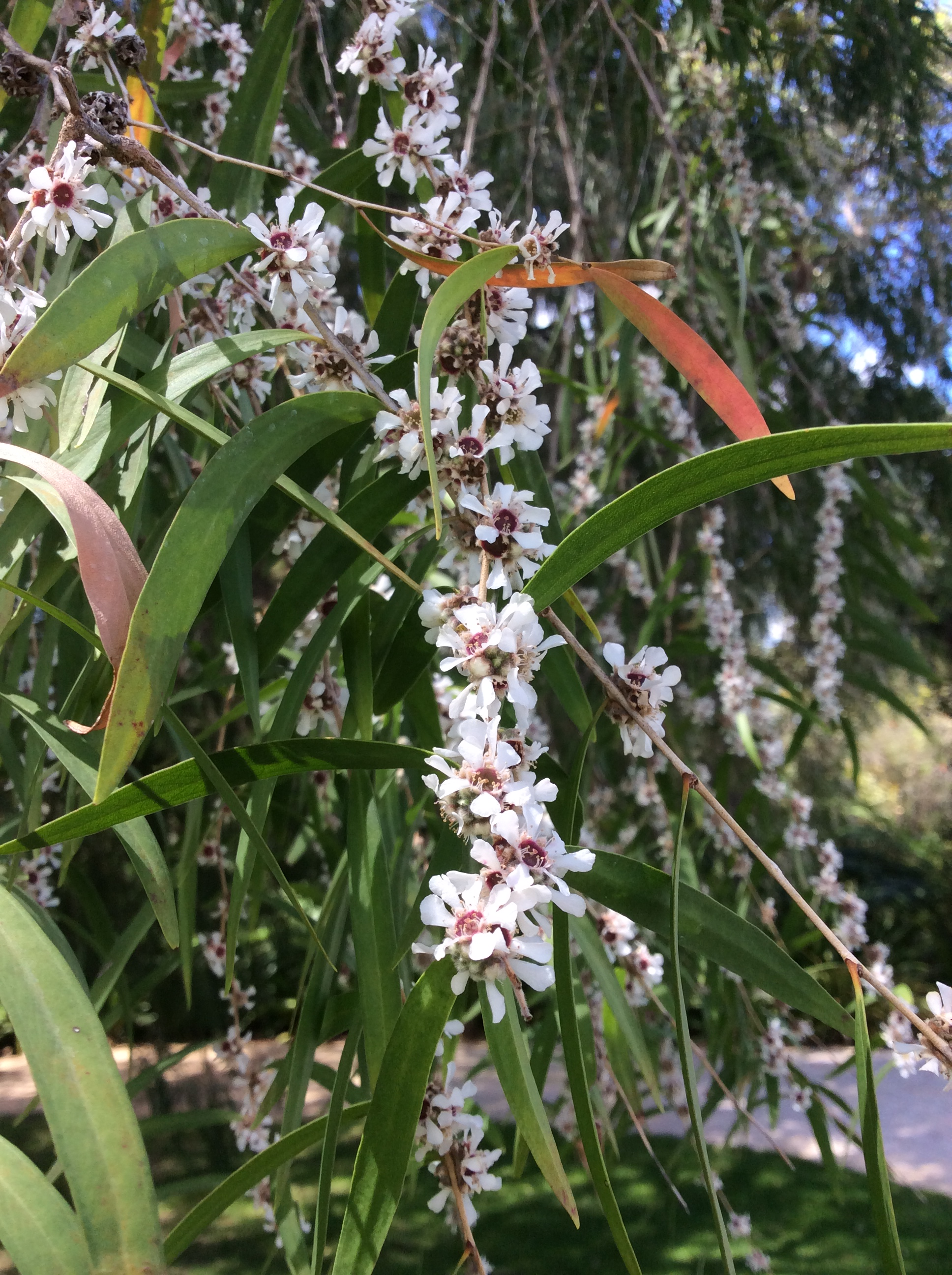 Flowering Agonis flexuosa/Peppermint at Kings Park in Perth